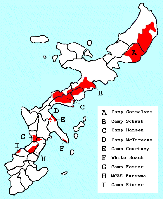 Map of United States Marine Corps installations on Okinawa